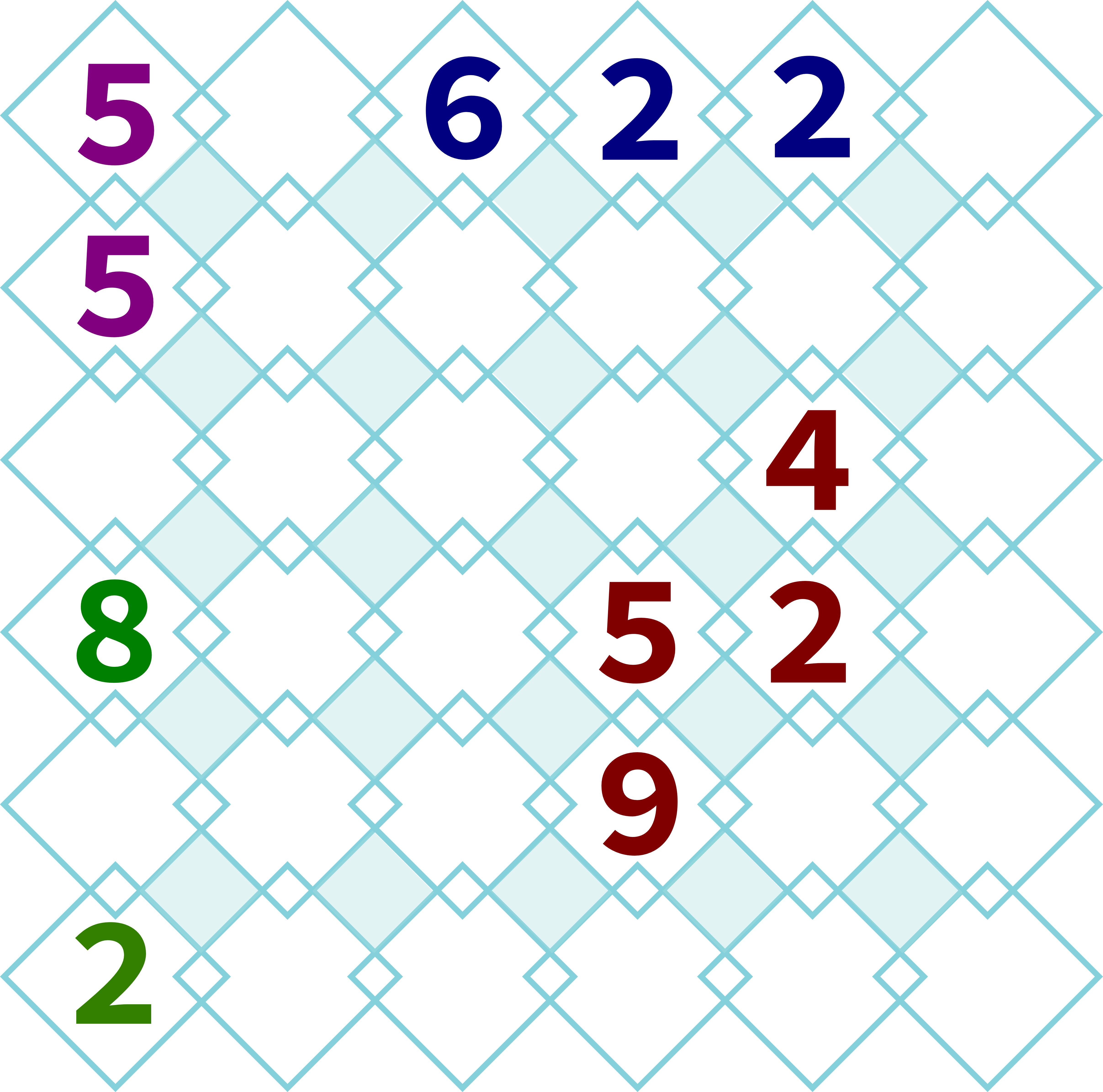 Tutorial image for the game Decodoku